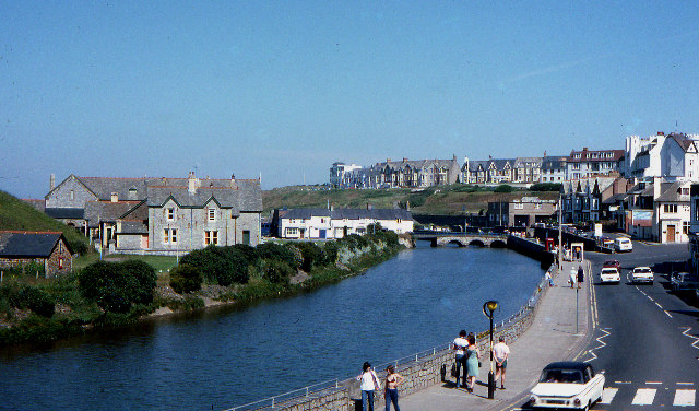 The Strand Bude looking north west 1977. Taken from the Marine Hotel late May Bank Holiday 1977